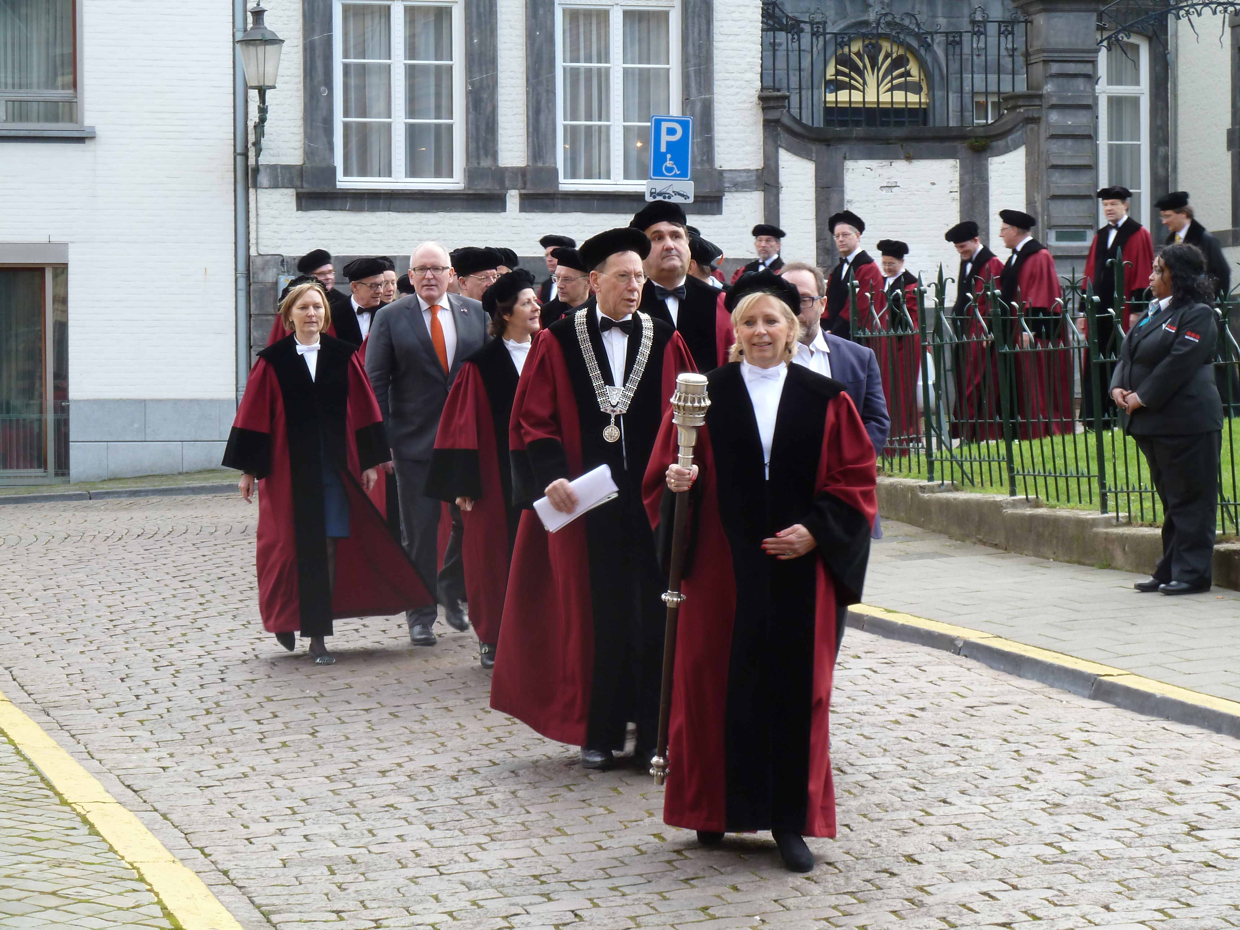 39th Dies Natalis of Maastricht University